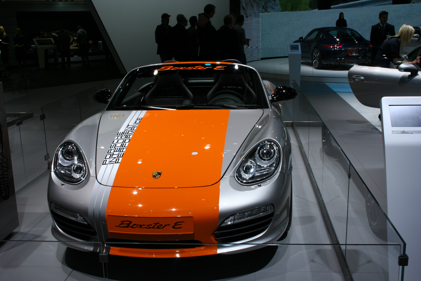 Porsche Boxster E at IAA 2011